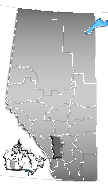 Location of Division No. 6, Alberta